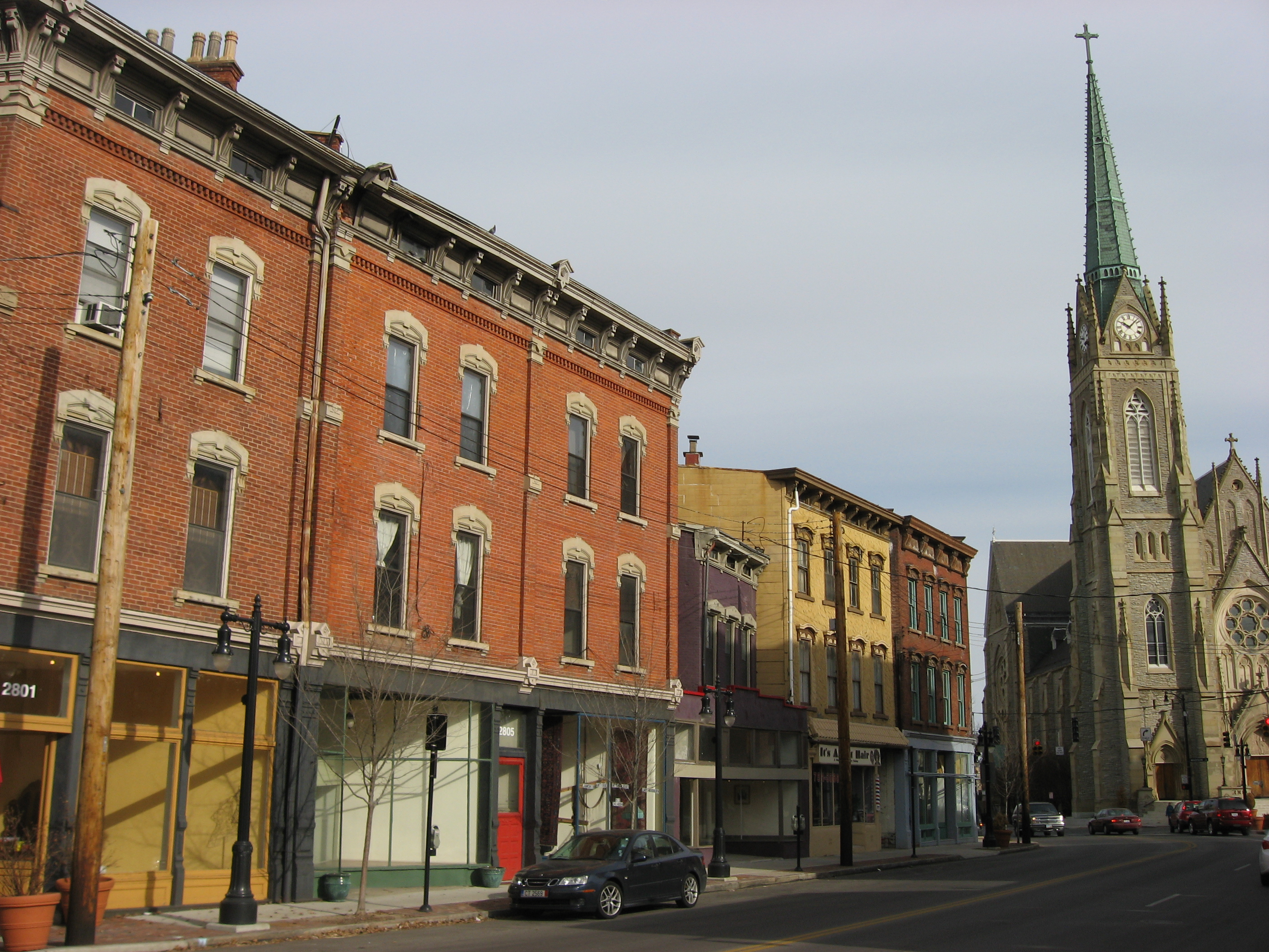 Buildings on the western side of the 2800 block of Woodburn Avenue in the East Walnut Hills neighborhood of Cincinnati, Ohio, United States. Notice St. Francis De Sales Catholic Church, which lies on the northern side of the intersection of Woodburn with Madison Road. These buildings are part of the Madison and Woodburn Historic District, a historic district that is listed on the National Register of Historic Places.